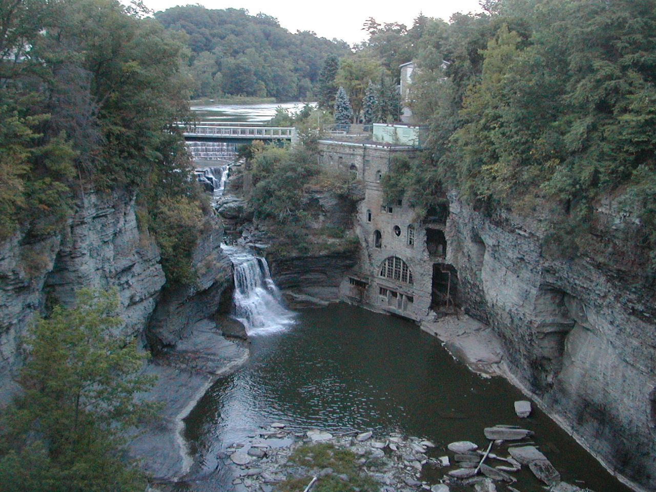 Waterfall on Cornell Campus